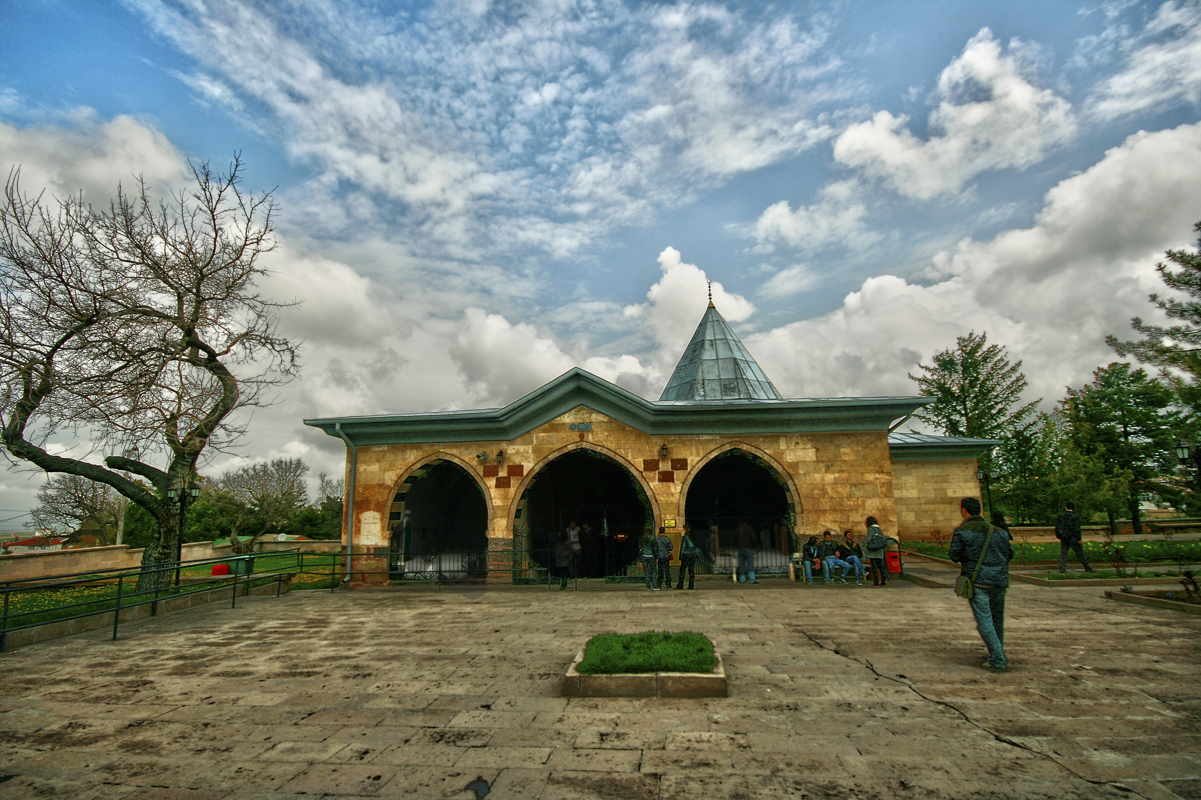 Haci bektaş pir